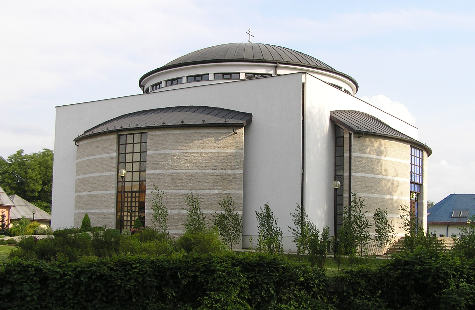 Byzantine Catholic Church of the Holy Seven Slavonic Saints in Sobrance, Slovakia.